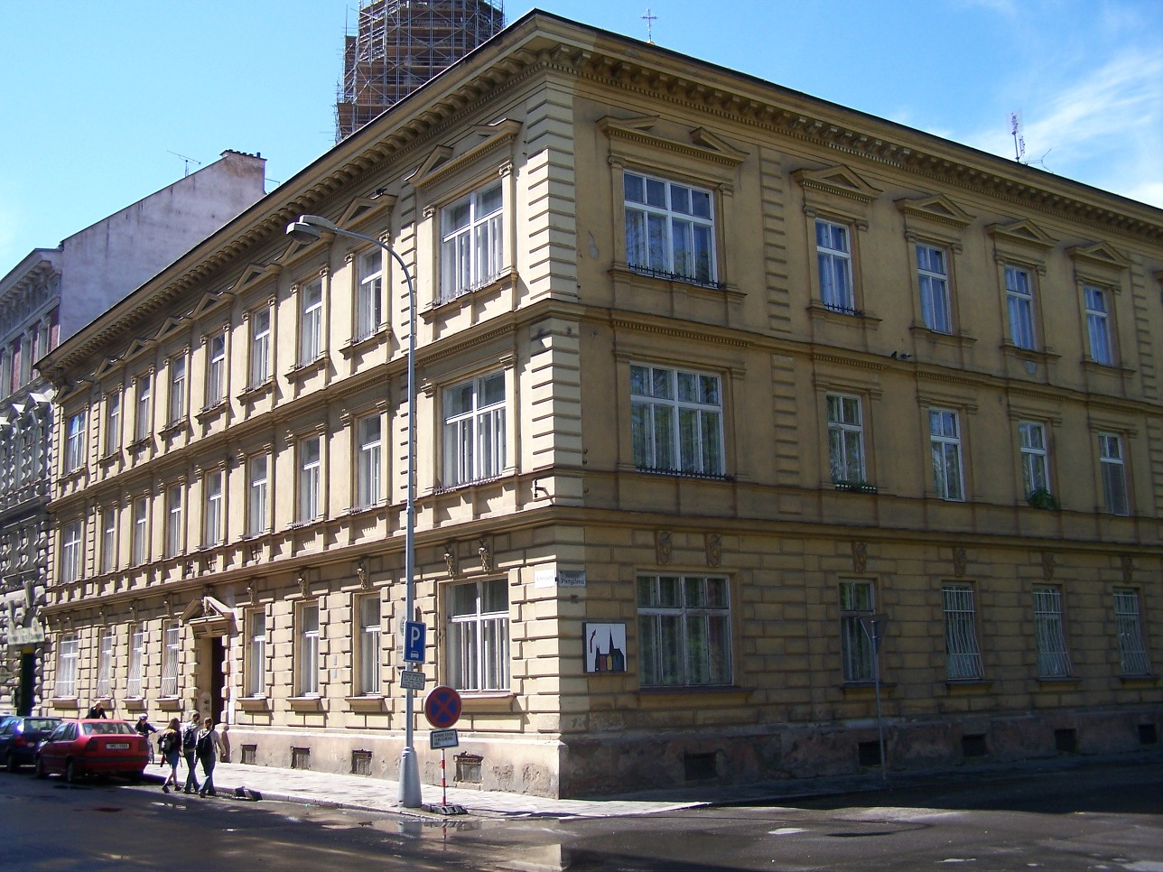 Neorenaissance architecture in Olomouc, The Czech Republic